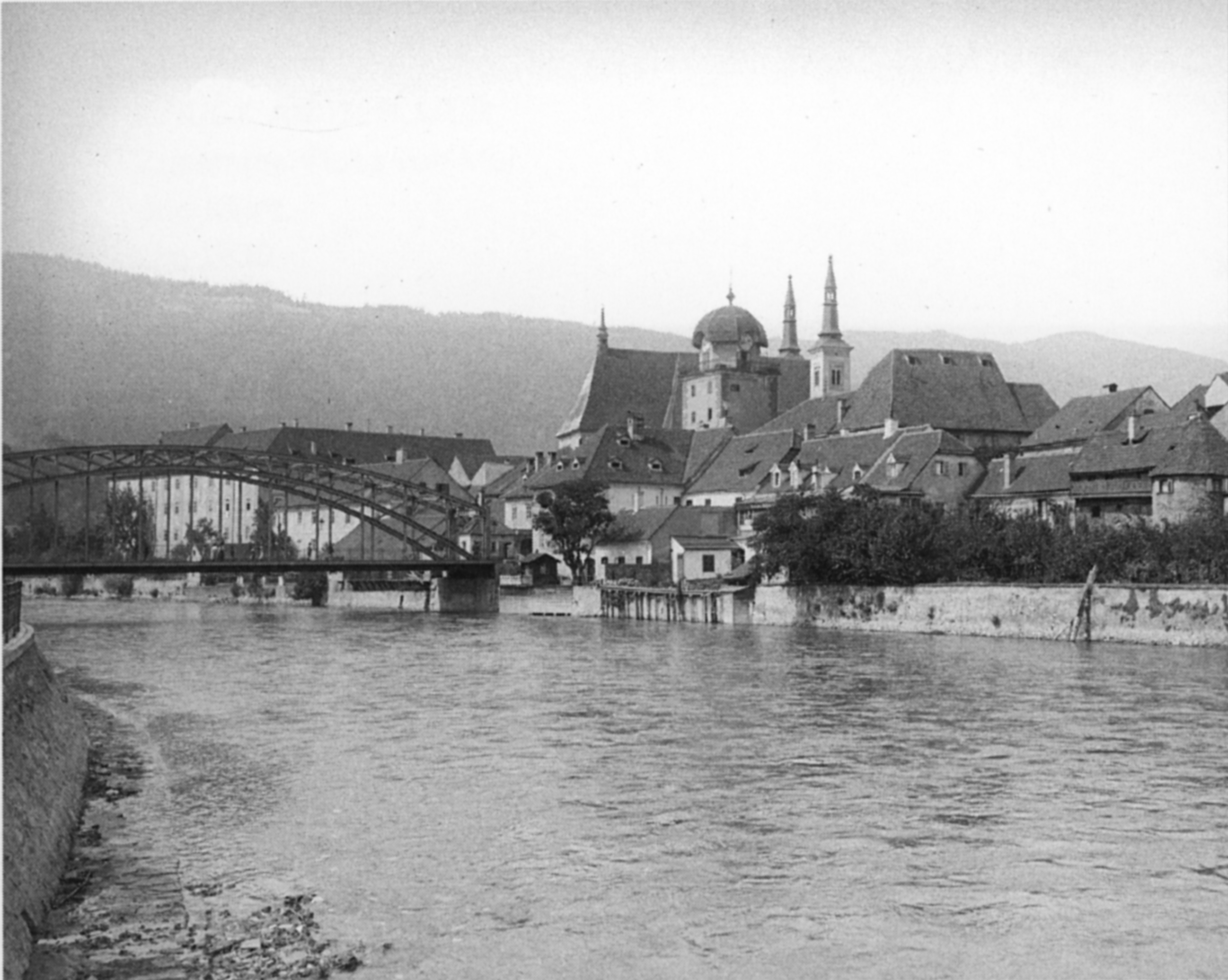 Petschar, Friedlmeier, Steiermark in alten Fotografien, Ueberreuther Verlag Wien. Scanprojekt Community Projektbudget 2012 This scan or this PDF-file was created within the GLAM-project Bookscanning, supported by Wikimedia Germany and Wikimedia Austria as a part of the community-project to capture books, documents and pictures which are not eligible to copyright or for which the copyright has expired. This document describes or depicts an object which is located in Austria today. Texts are written German language. Send requests for uncompressed scans to Hubertl. This work is in the public domain in its country of origin and other countries and areas where the copyright term is the author's life plus 100 years or less. You must also include a United States public domain tag to indicate why this work is in the public domain in the United States. This file has been identified as being free of known restrictions under copyright law, including all related and neighboring rights.